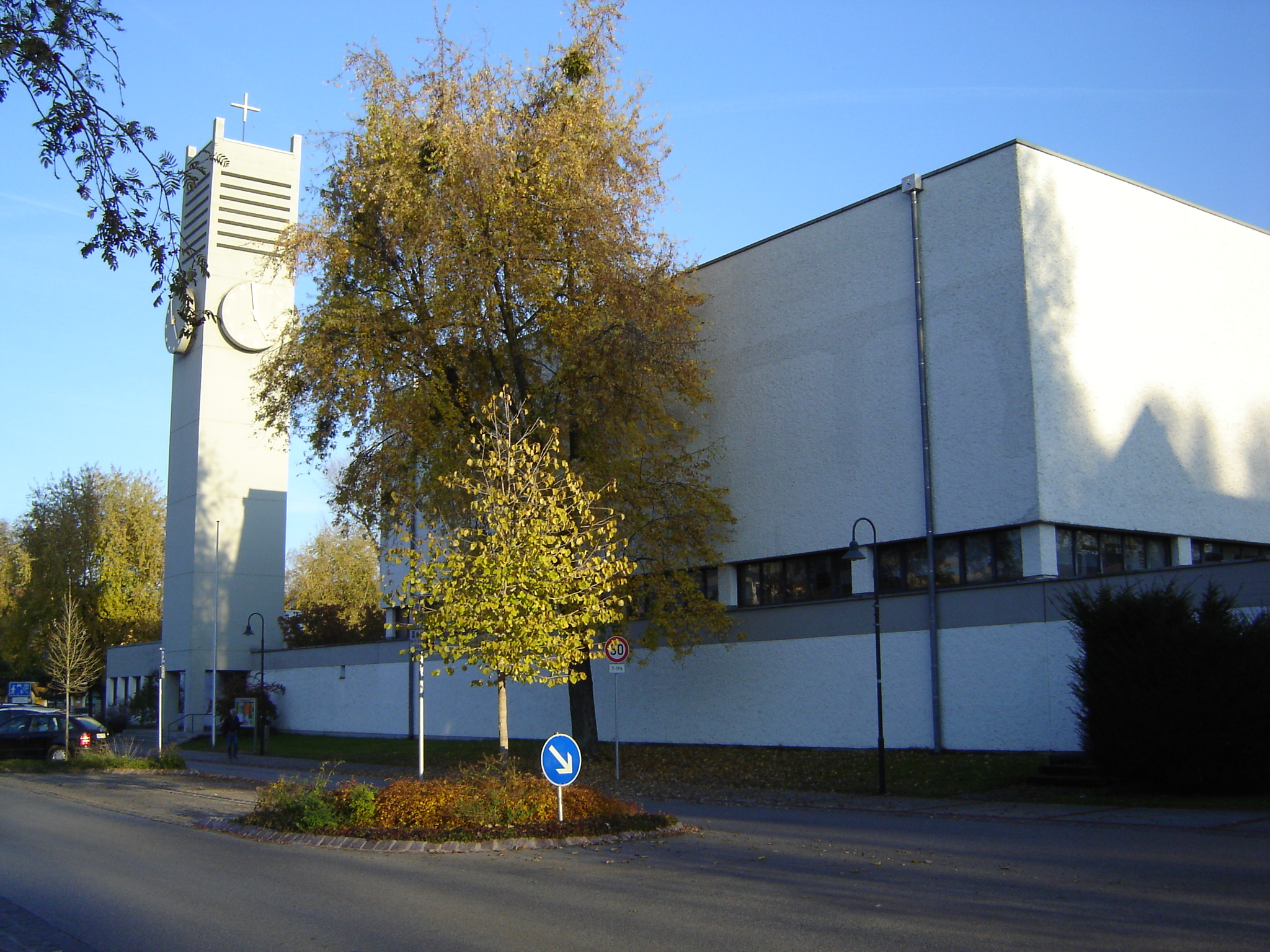 The St. Josef church in Puchheim-Bahnhof